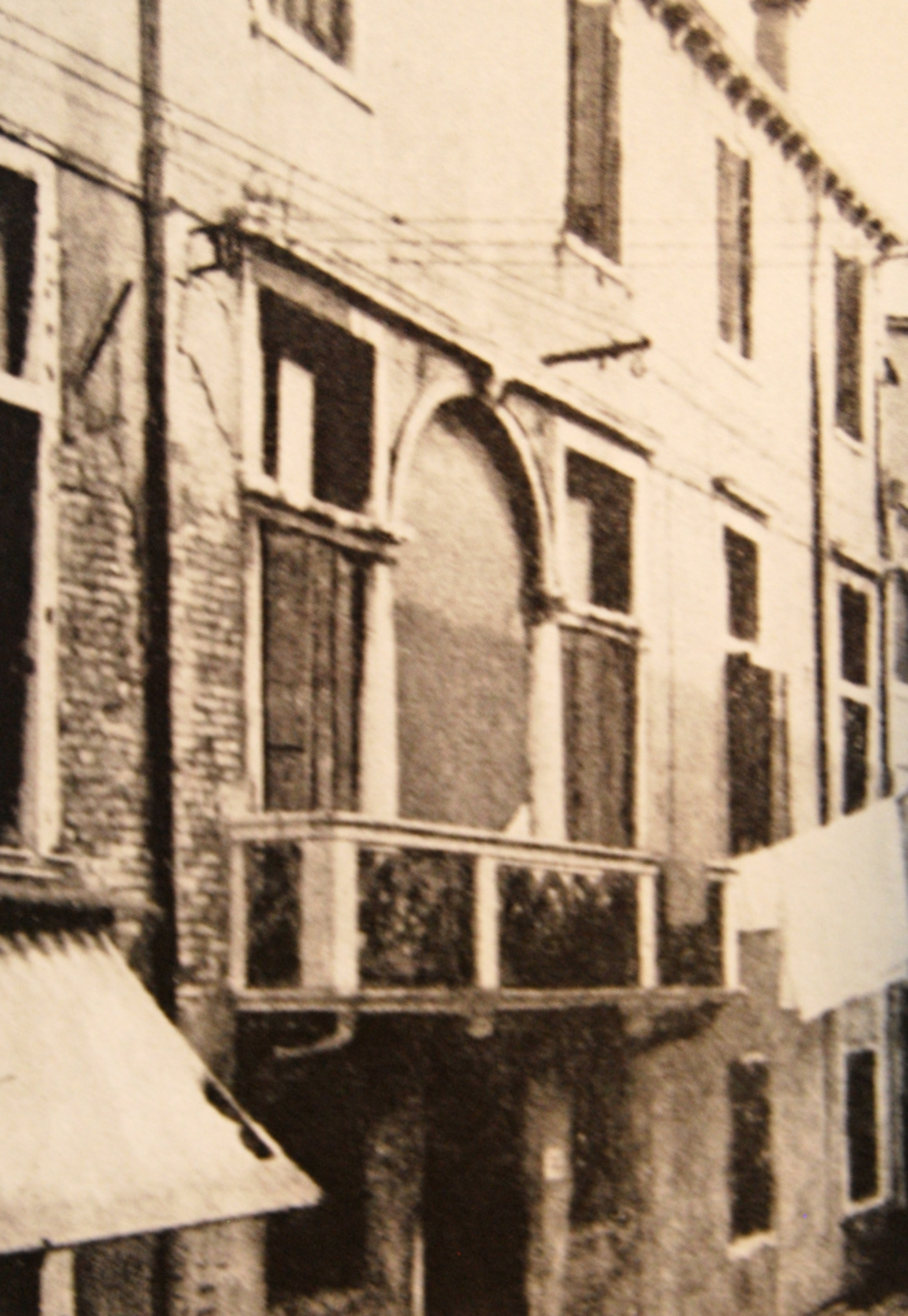 Amedeo Modigliani atelier in Venice Ca. 1903 in Dorsoduro area, near the academy of arts